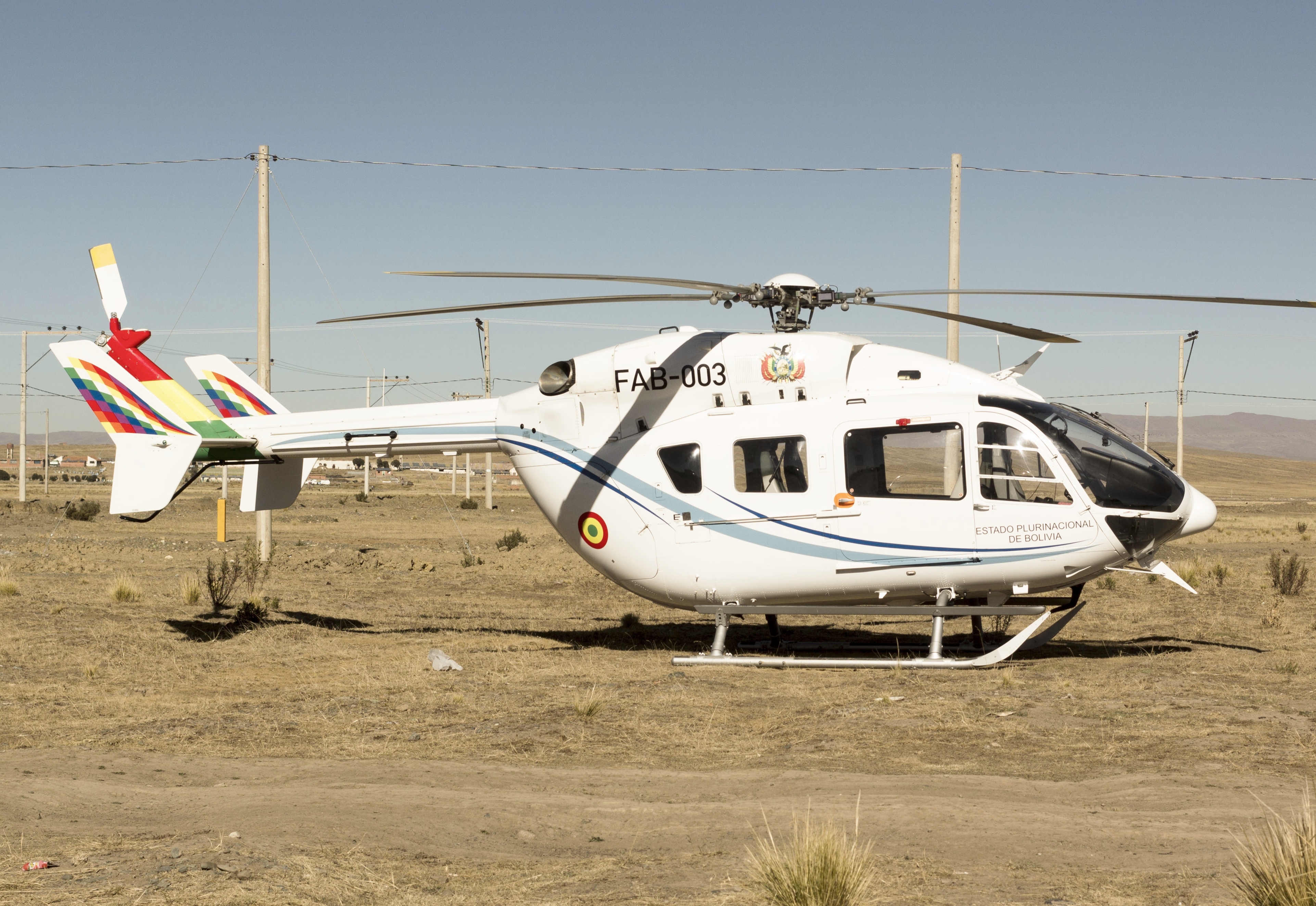 Fab-003 Bolivian Air Force Helicopter